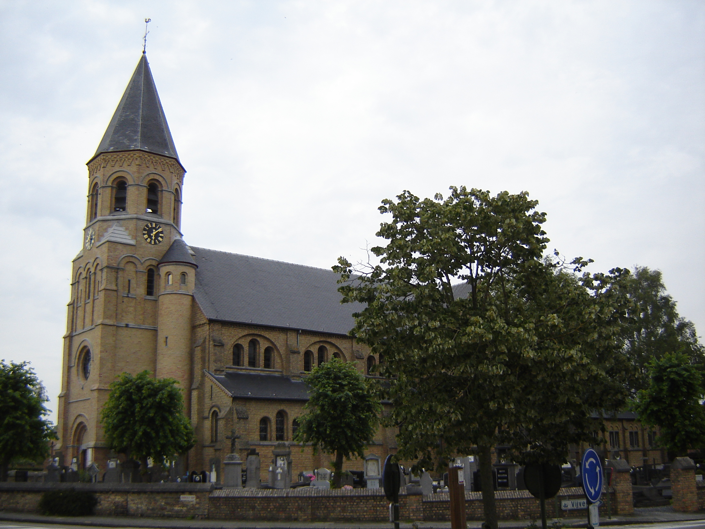 Church of Our Lady in Voormezele, Ieper, West Flanders, Belgium.